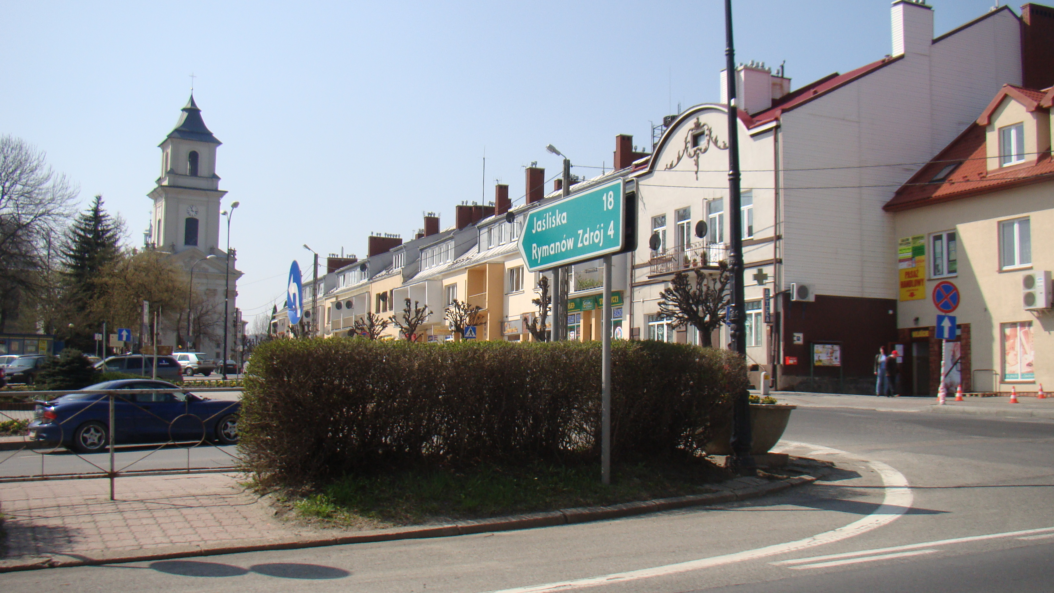 Rymanów market square